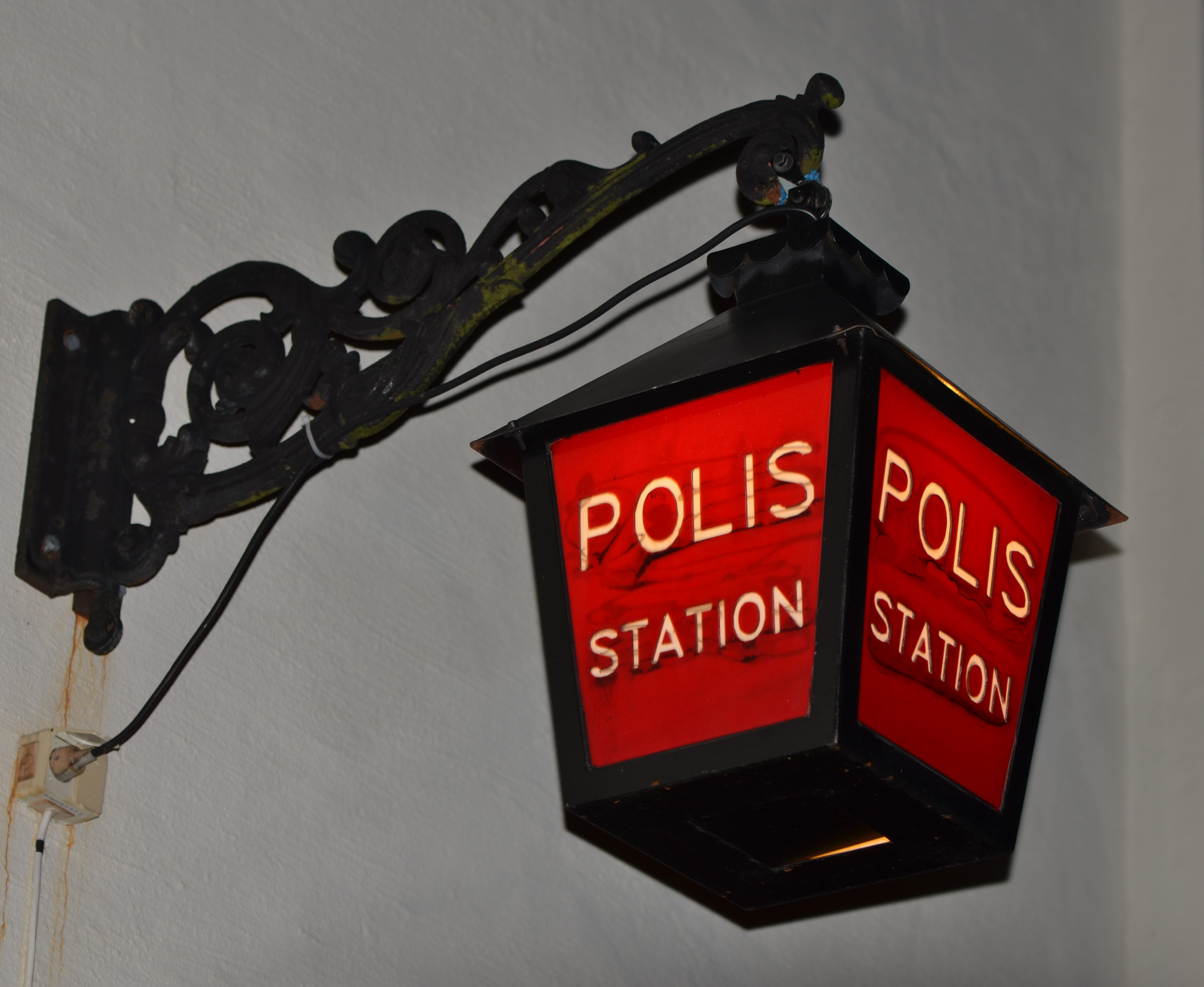 Police station in Gustavsberg Sweden